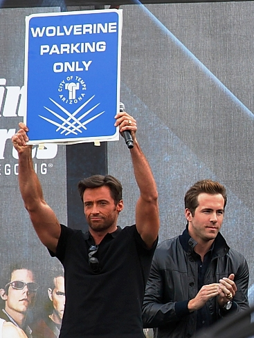 From left to right on stage: Hugh Jackman and Ryan Reynolds at the X-Men Origins: Wolverine premiere in Tempe, Arizona.